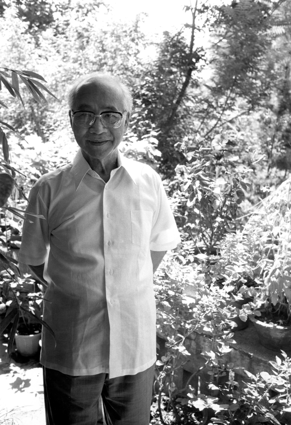 photograph of Wu Zouren